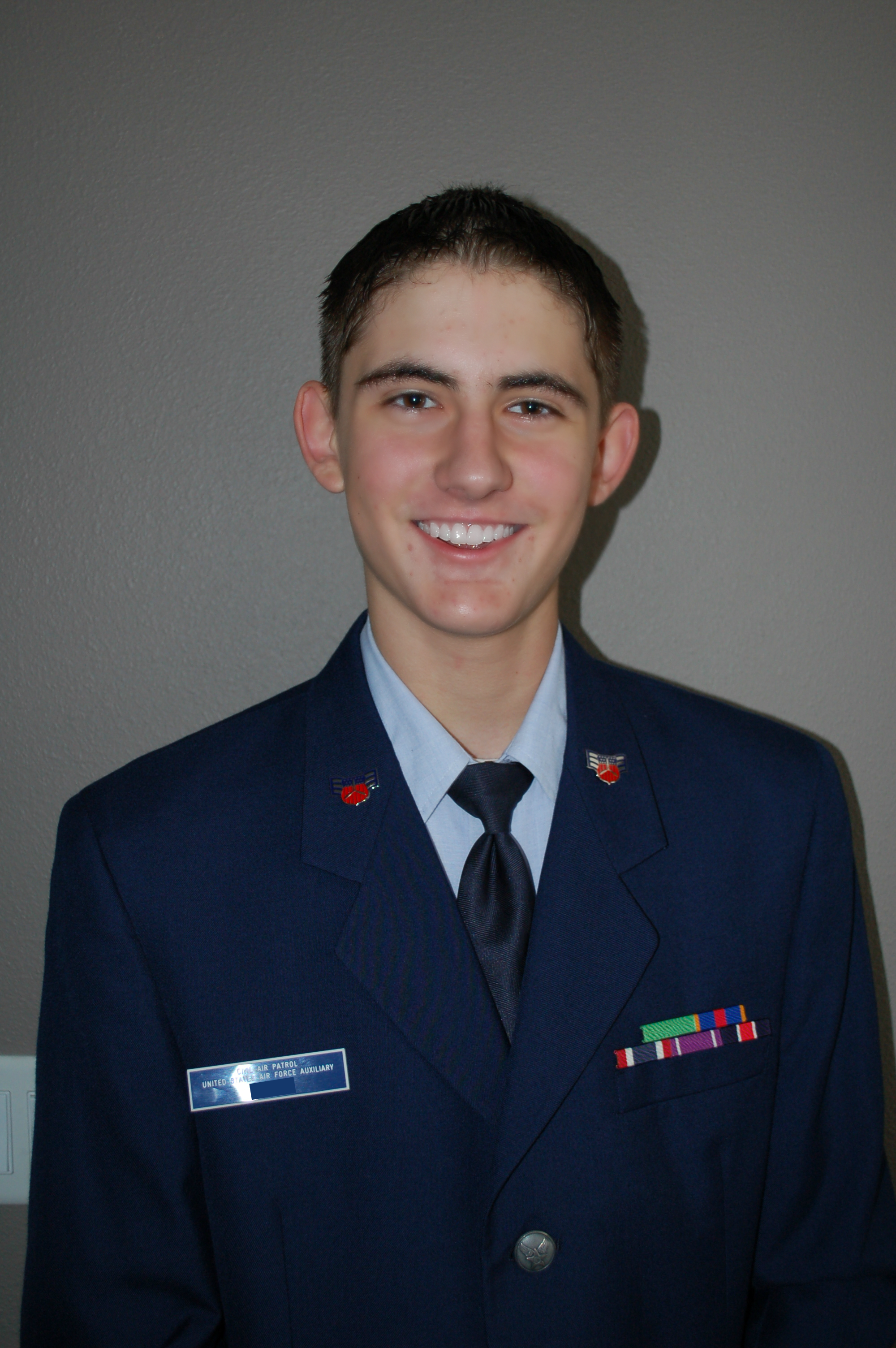 An American Civil Air Patrol cadet shown wearing his uniform.